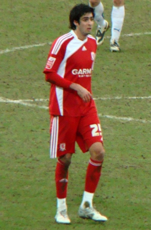 Rhys Williams playing for Middlesbrough